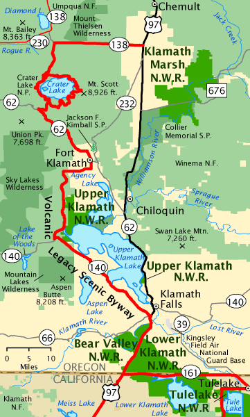 Map of the Oregon section of the Volcanic Legacy Scenic Byway — a National Scenic Byway in California and Oregon. It runs on various state routes, and through National Forests and parks, in south-central Oregon.